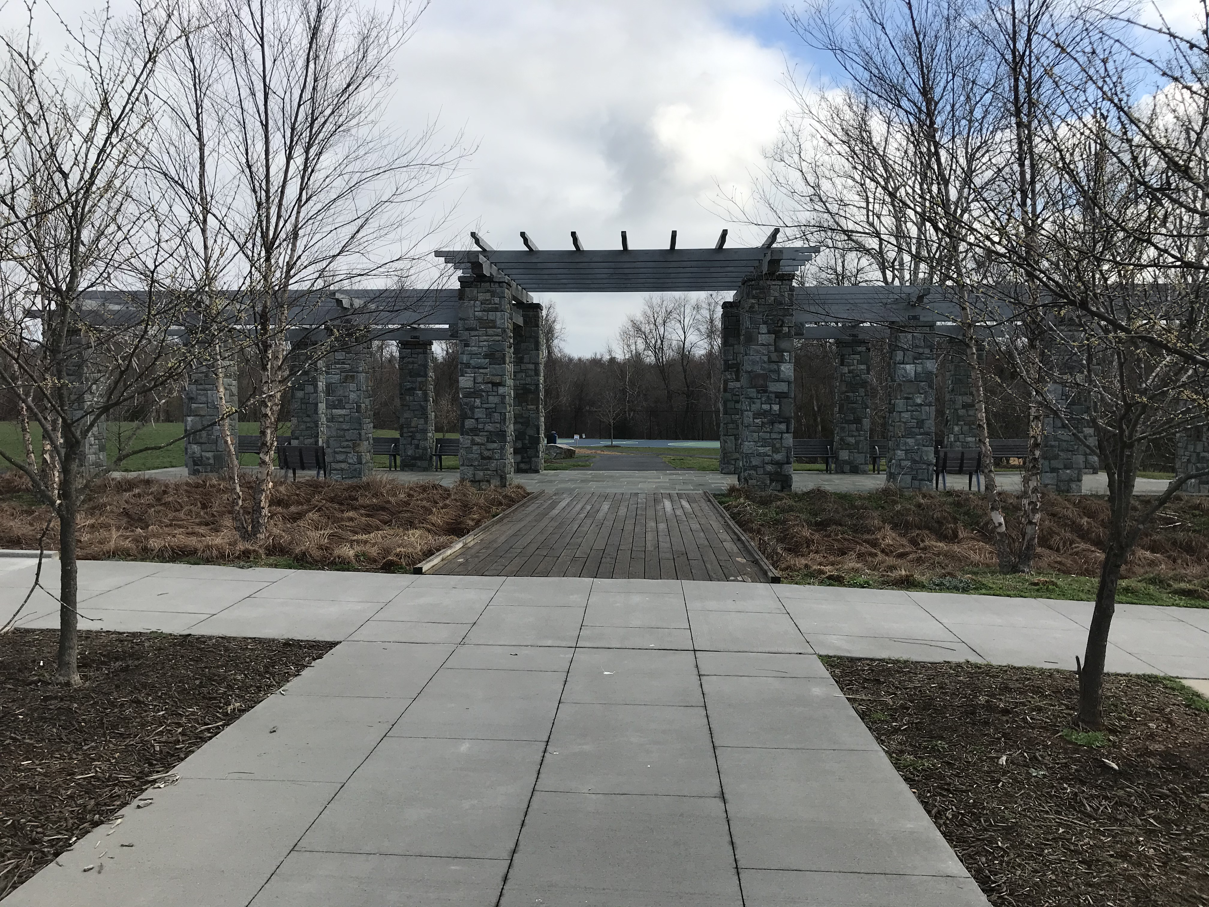 Front of Montgomery County's Greenbriar Park in Travilah, Maryland